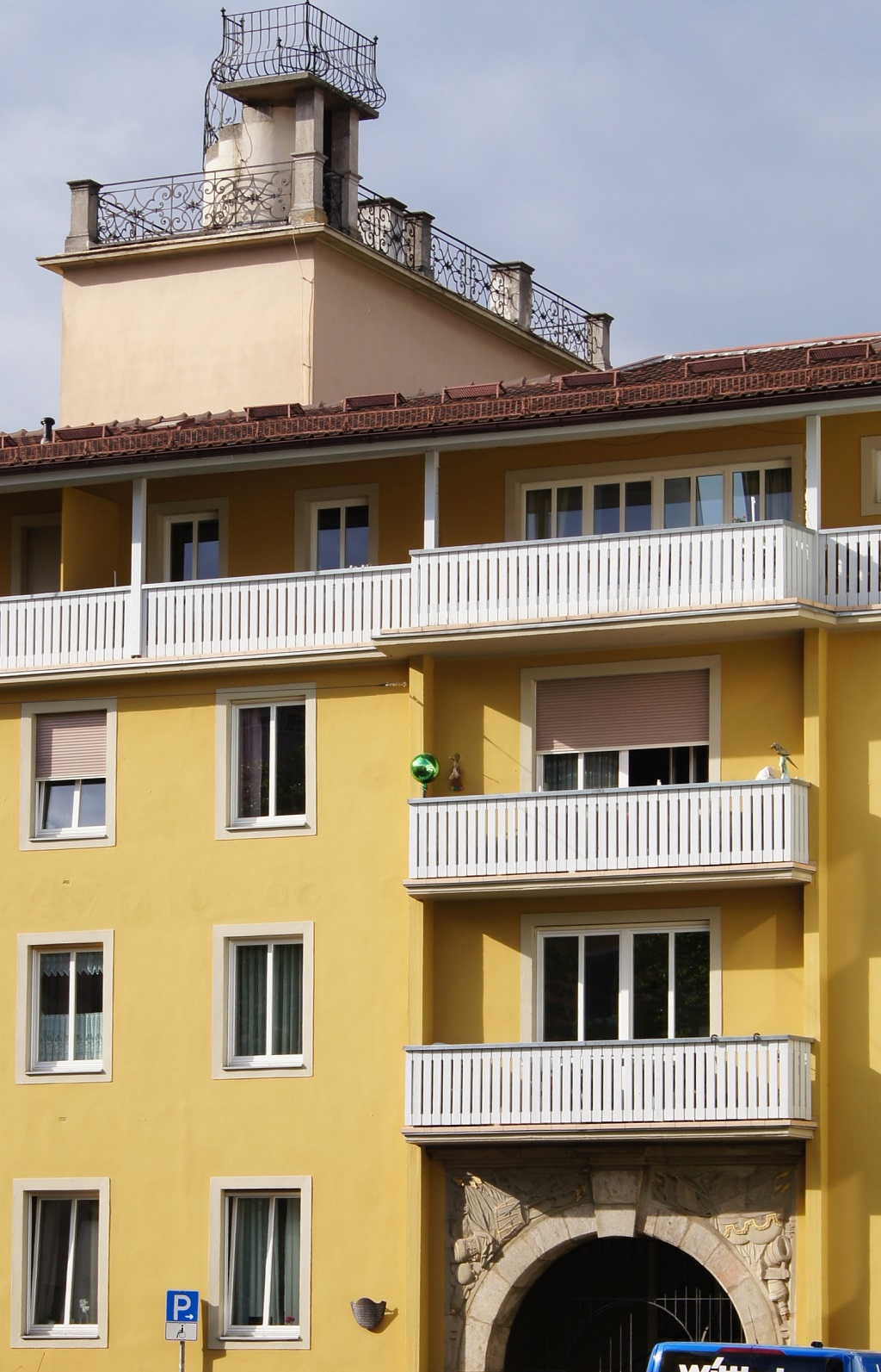 House of Balthasar Neumann in Würzburg: "Kanzel" and portal (2017)